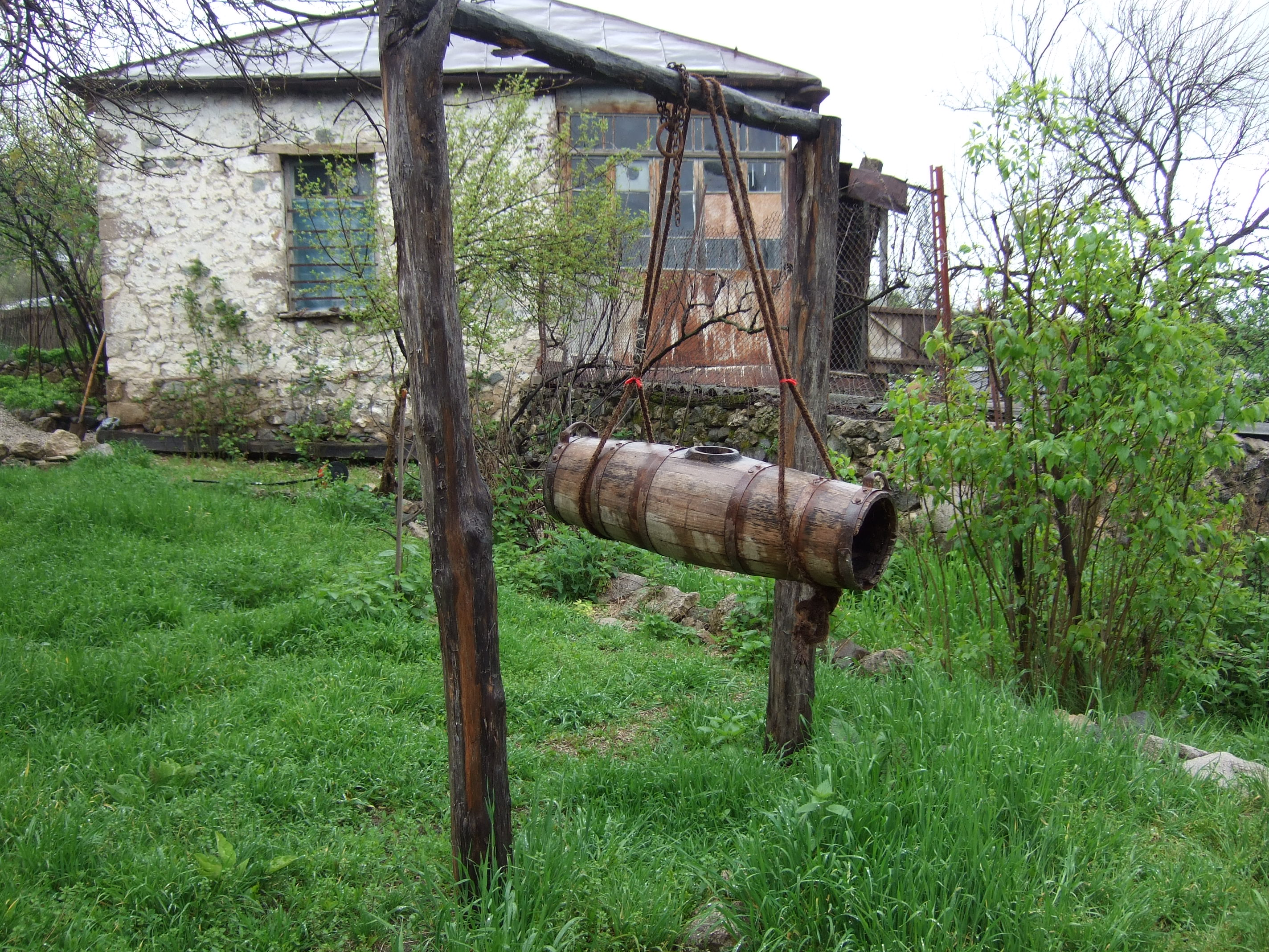 wooden butter churn in the vicinity of Nikol Duman's House Museum, Askeran, Azerbaijan Republic